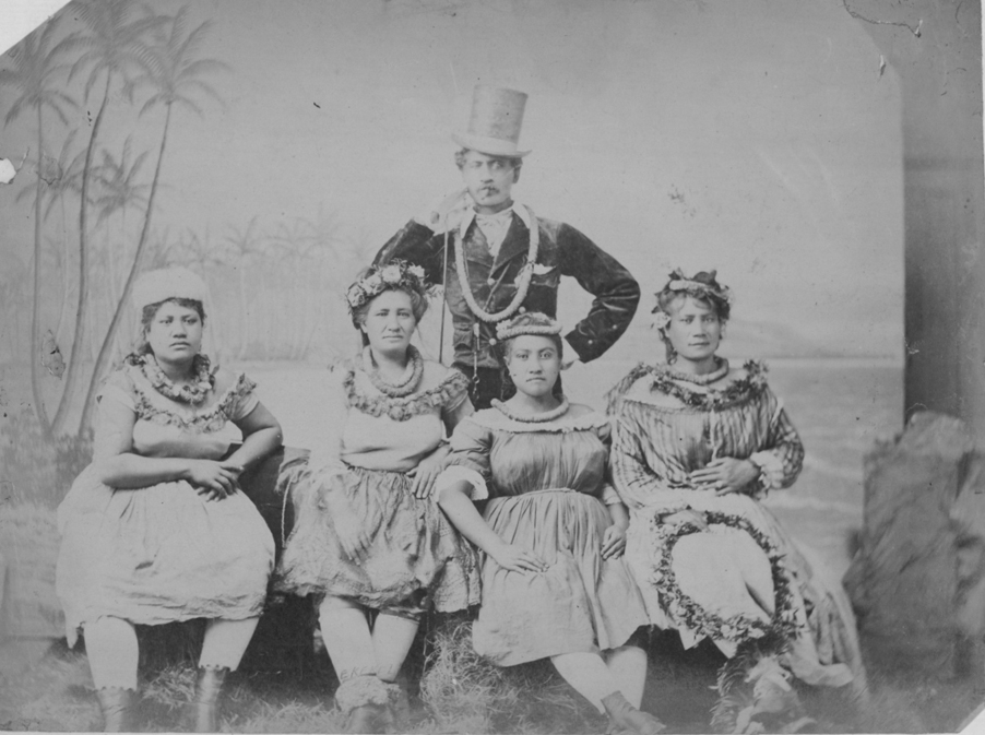 Ioane Ukeke and four hula dancers.